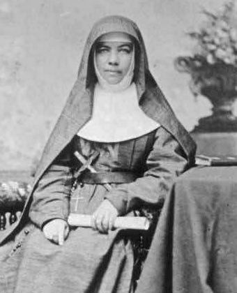 Mary MacKillop holding a copy of her Life Vows, 1869